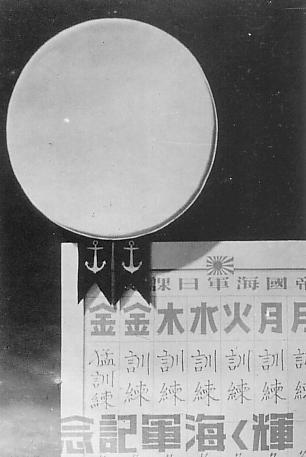 Imperial Japanese Navy's poster "Mon. Mon. Tue. Wed. Thu. Fri. Fri."